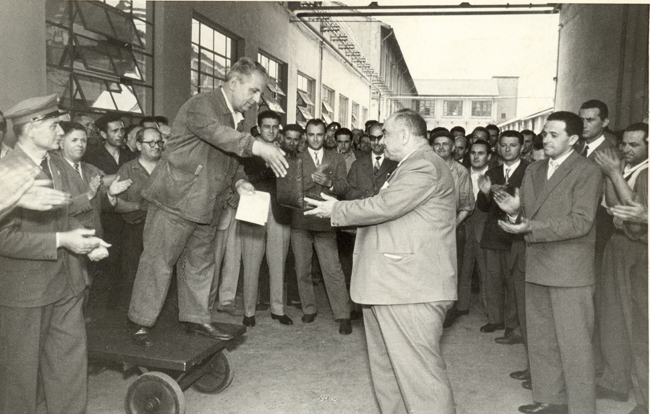 Adelmo Lombardini receives his nomination as "Cavaliere del Lavoro" among his employees in Gardenia.